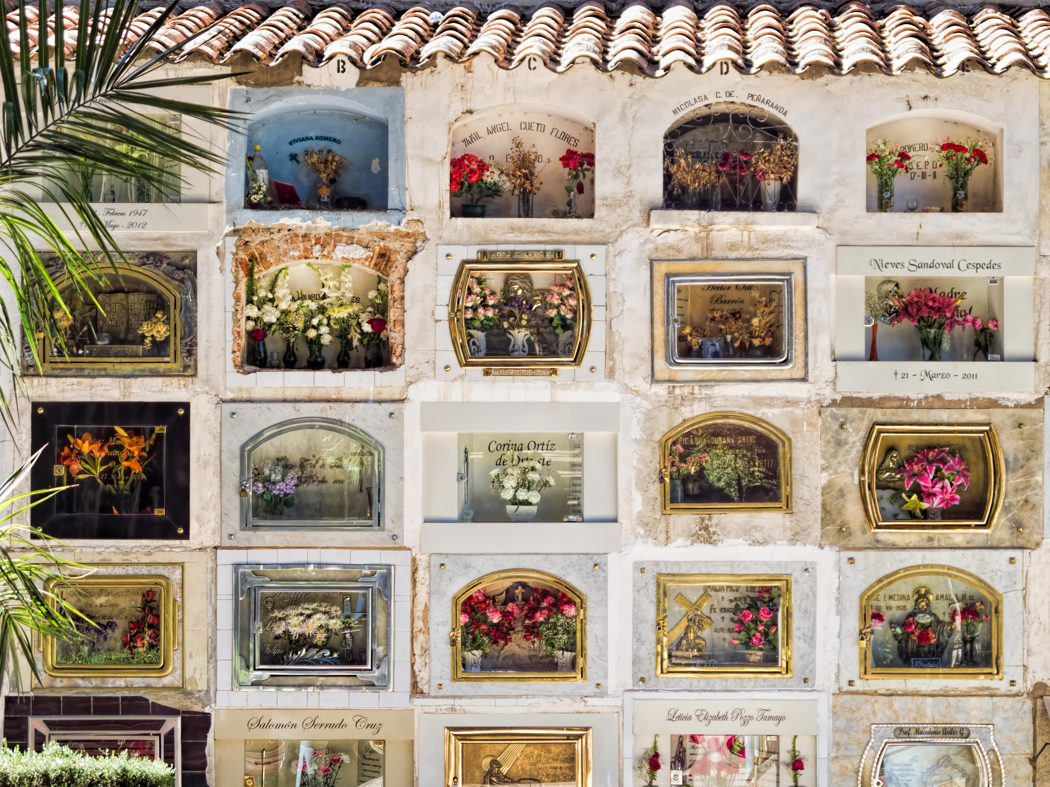 Just a few of the crypts in one of the many walls of them at the municipal cemetery. On Google Earth: Cementerio Municipal 19° 3'10.69"S, 65°16'4.49"W